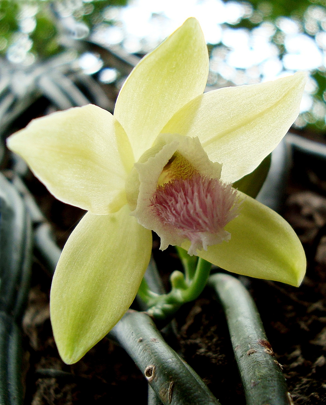 Vanilla aphylla from Peninsular Botanical Garden (Thung Khai), Trang, Thailand